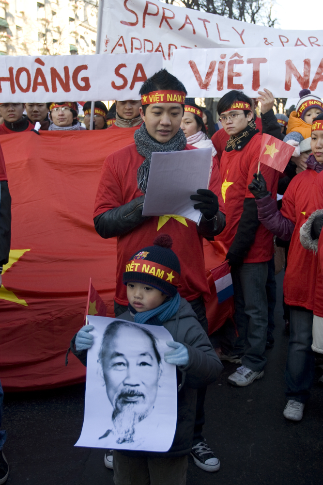 Vietnamese rally outside China embassy (Paris) over disputed islandsHoang Sa & Truong Sa belong to Vietnam